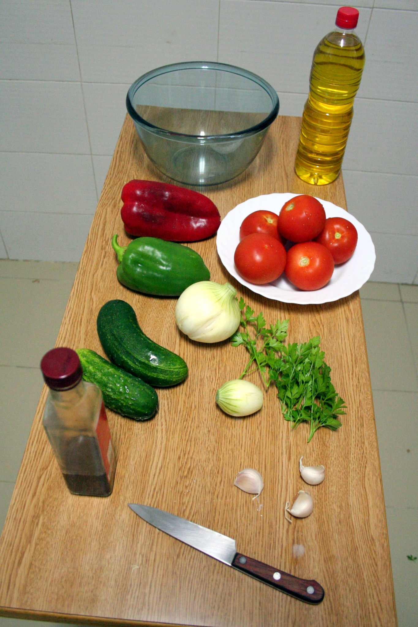 The ingredients for gazpacho soup.